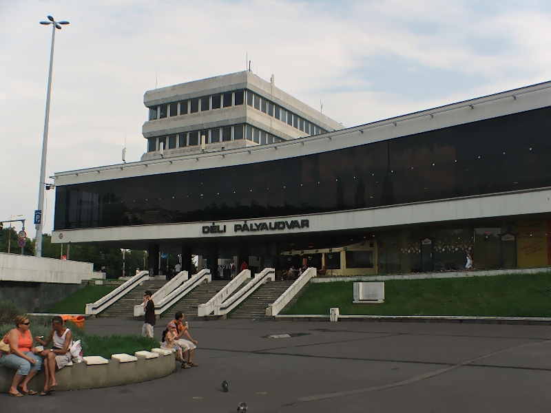 Southern Railway Station, Budapest, Hungary